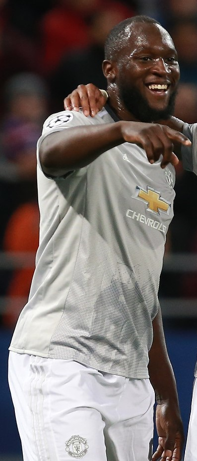 Romelu Lukaku, Ashley Young